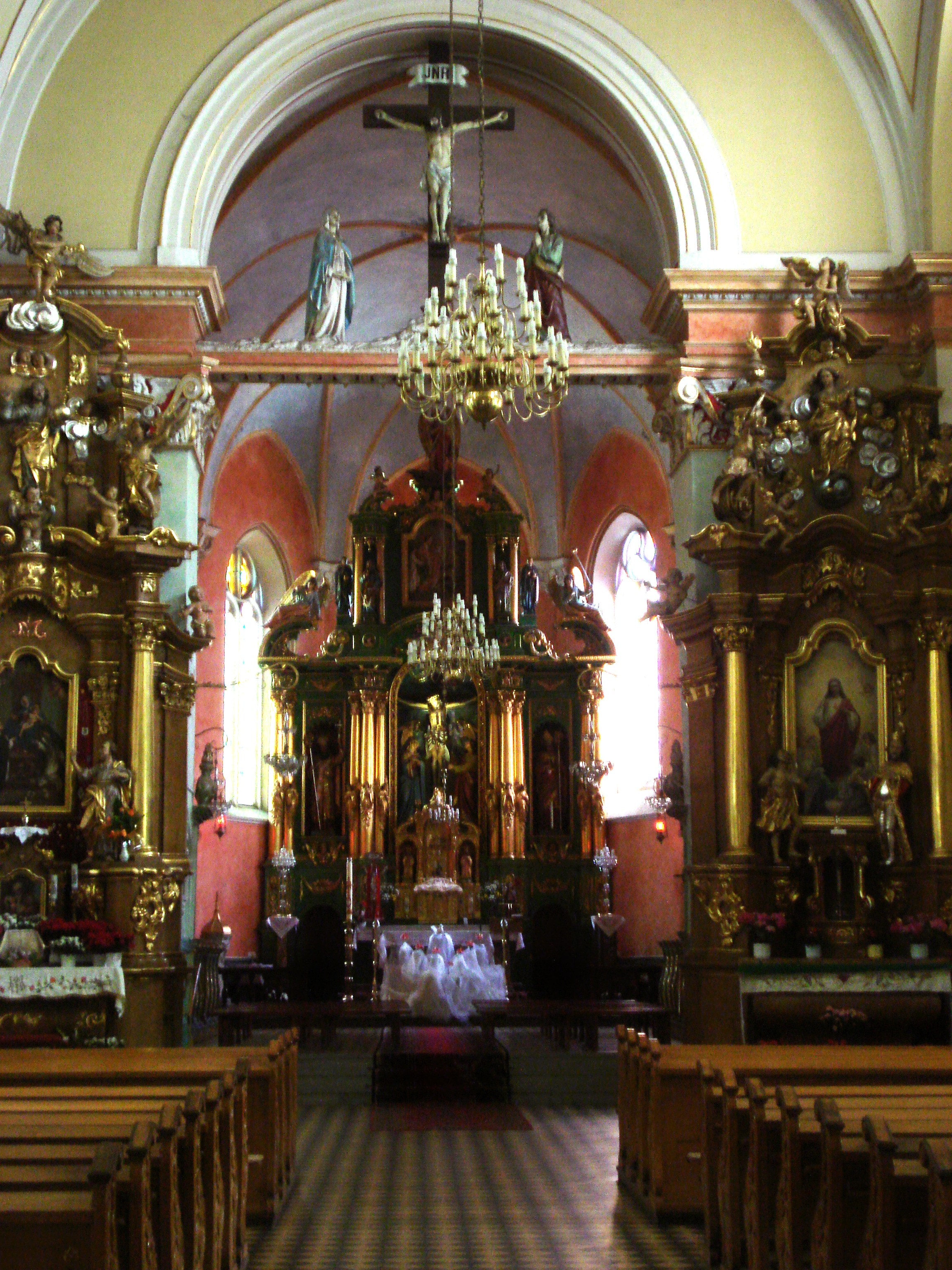 Interior of Saints Martin and Margaret church in Kłobuck, Poland